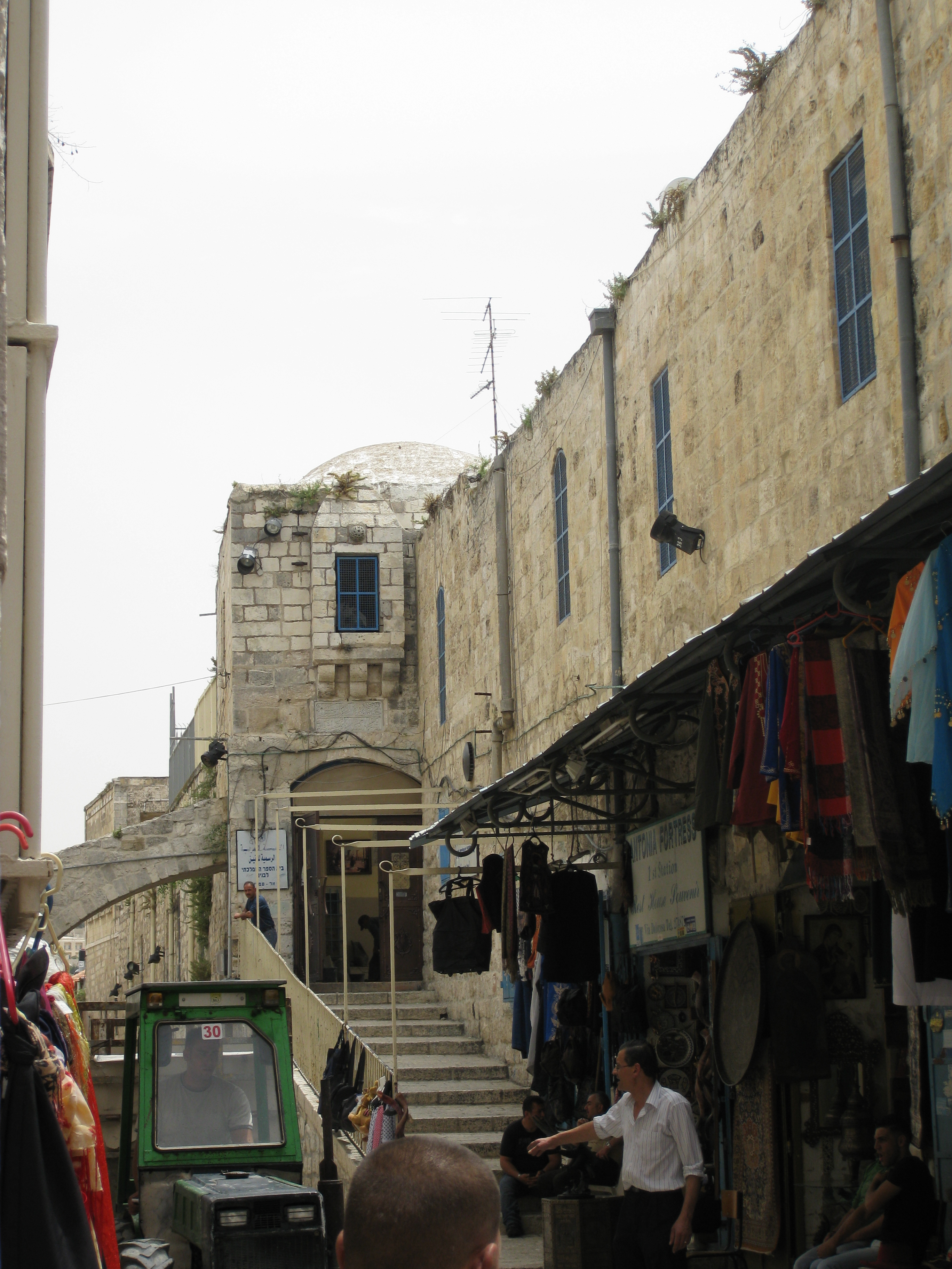 Old Jerusalem, El Omariya School